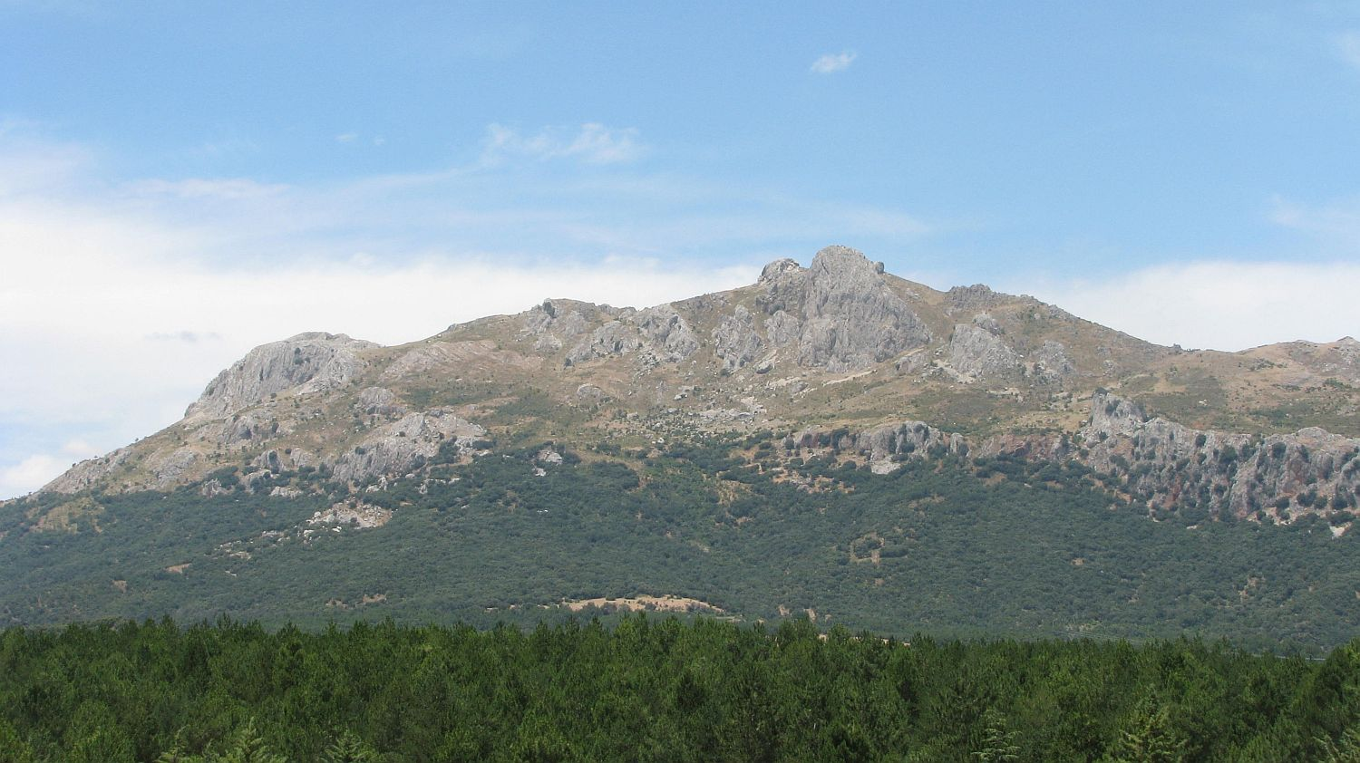 South face of Majalijar, higher point of Sierra de Cogollos (1.878 m)(6.161 ft)